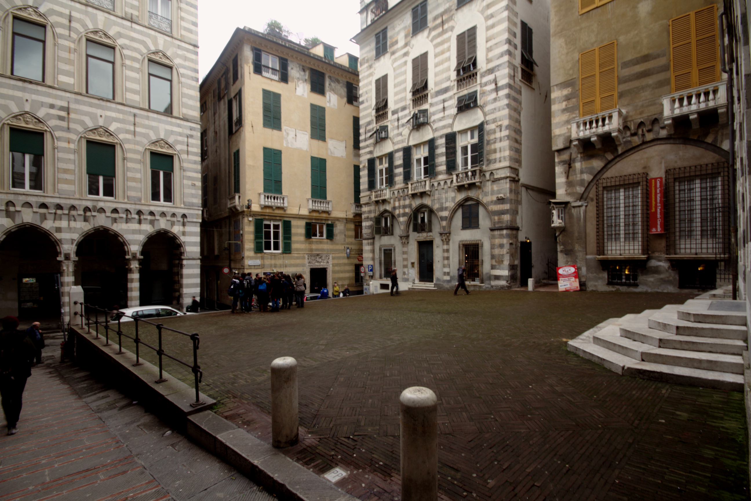 Piazza San Matteo (Genoa)